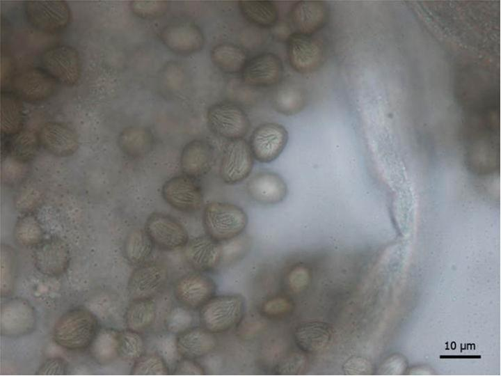 Rhizopus stolonifer is a species of fungi of the family Mucoraceae